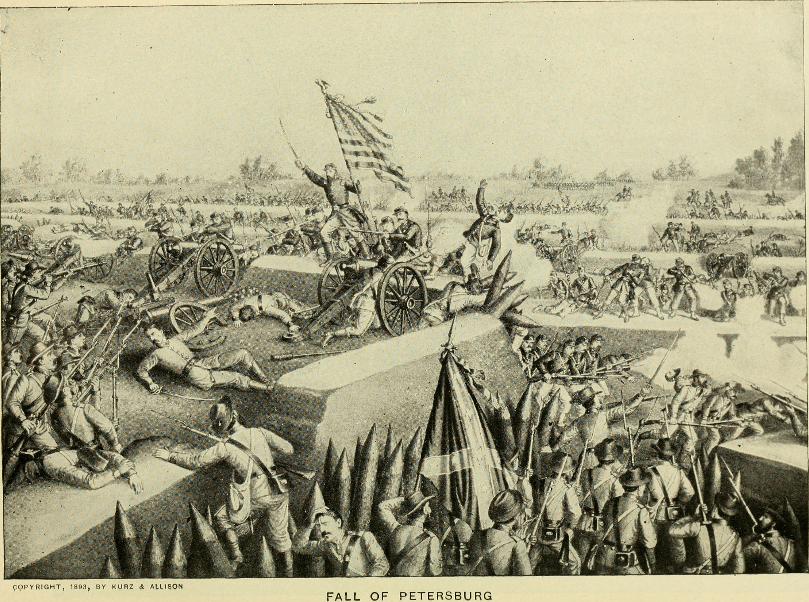 Title: Our greater country; being a standard history of the United States from the discovery of the American continent to the present time .. Year: 1901 (1900s) Authors: Northrop, Henry Davenport, 1836-1909 Subjects: Publisher: Philadelphia, National pub co. Text Appearing Before Image: .: . ti.AL GEORGE A. CUSTER FAMOUS CAVALRY COMMANDER, ASSOCIATED WITH GENERAL SHERIDAN IN THE PURSUIT AND CAPTURE OF GENERAL LEES ARMY ; AFTERWARD CELEBRATED INDIAN FIGHTER ; KILLED BY THE INDIANS, JUNE 25, 1876 Text Appearing After Image: ADMINISTRATION OF ABRAHAM LINCOLN. 753 Shenandoah, destroying all the crops, mills,barns, and farming implements, and drivingoff the cattle with his army as he movedback. Early was reinforced after his retreat tothe upper valley, and about the middle ofOctober advanced down the valley towardsthe Federal position with a force of ninethousand men and forty pieces of cannon.The Union army lay at Cedar Creek, andwas under the temporary command of Gen-eral Wright during the absence of GeneralSheridan. On thenineteenth of Oc-tober Early attack-ed this force, anddrove it back forseveral miles. In-stead of continuingthe pursuit, histroops stopped toolunder the Federalcamp,whichhad fal-len into their hands. General Wrightrallied his men andreformed them in anew position, andat this momentGeneral Sheridanarrived on the field. He had heard the firing at Winchester,twenty miles away, and had ridden at fullspeed from that place to rejoin his army. Heat once ordered it to advance upon Early,whose m